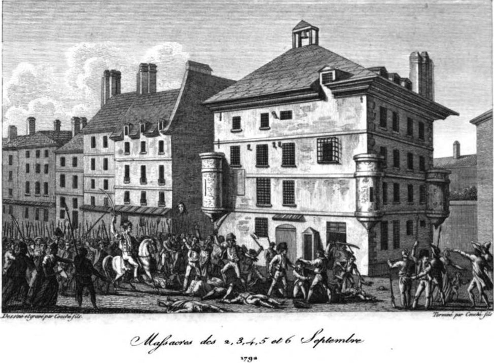 September Massacres during the French Revolution